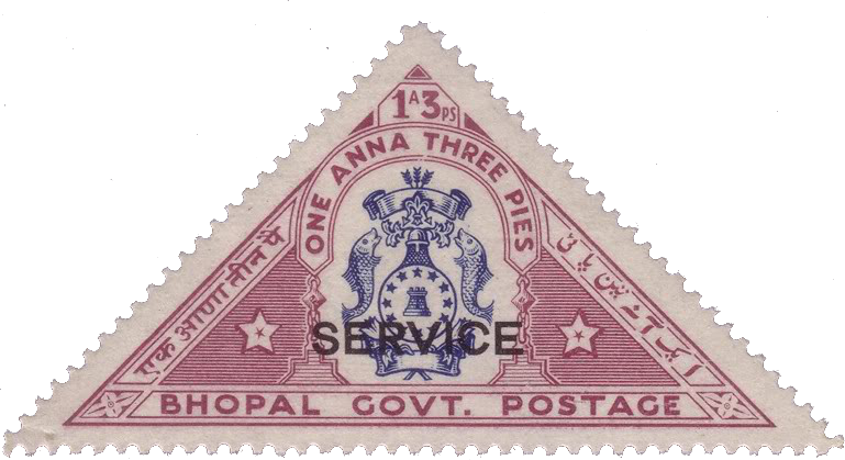 Bhopal Government Postage stamp, 1935. 1 Anna 3 Pies (1¼ annas, matches the British Indian basic letter rate). Printed by the Indian Security Printing Press at Nasik.